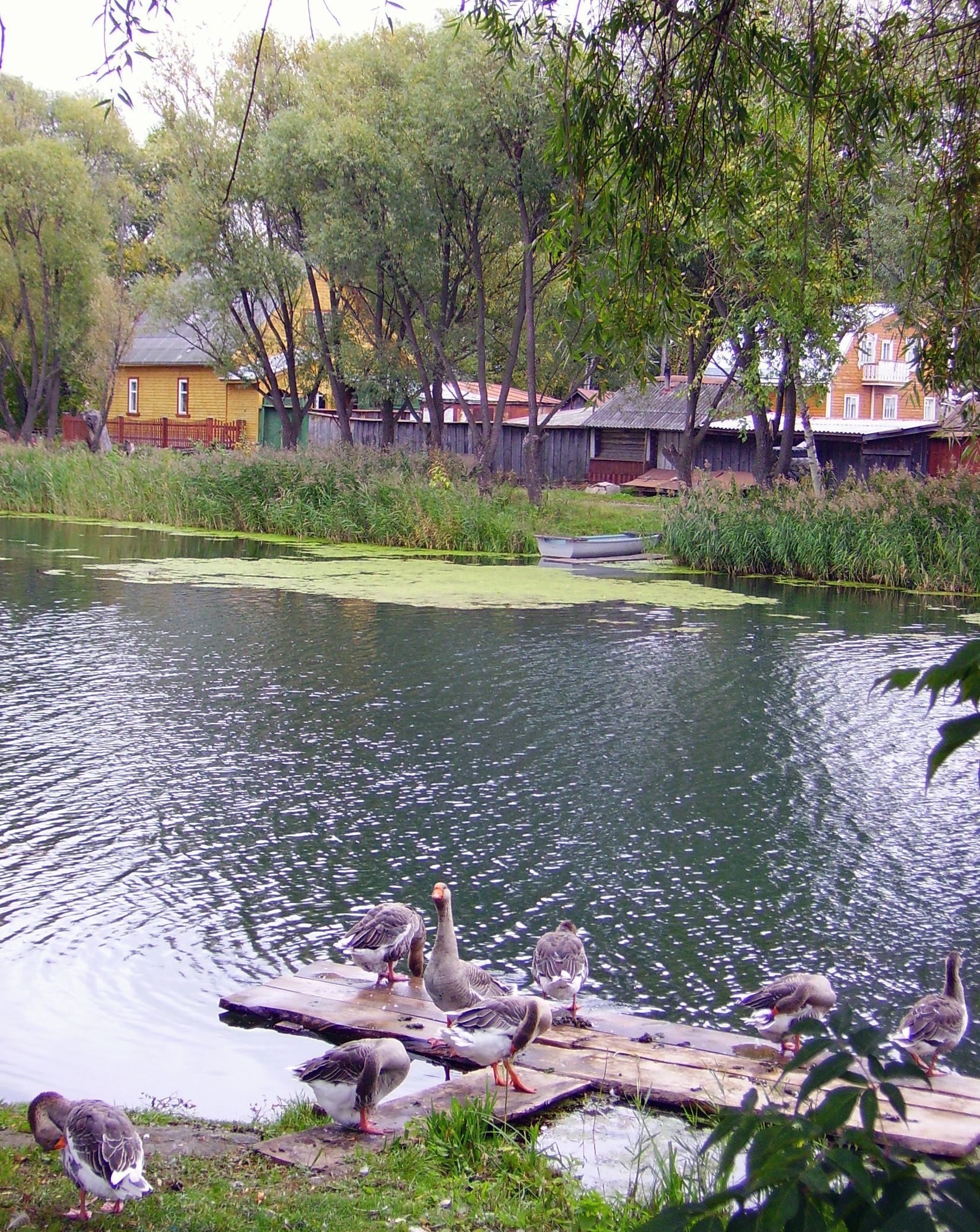 Kishma River Banks